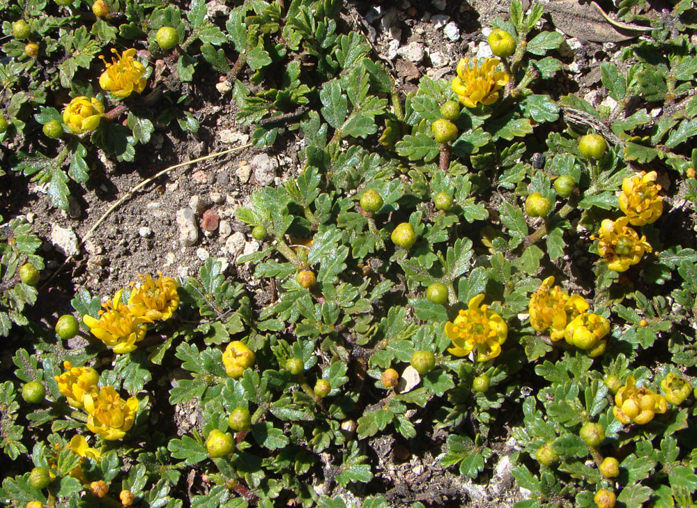 A prostate species known as Jarilla Rastrera in patagonian Argentina. In context at